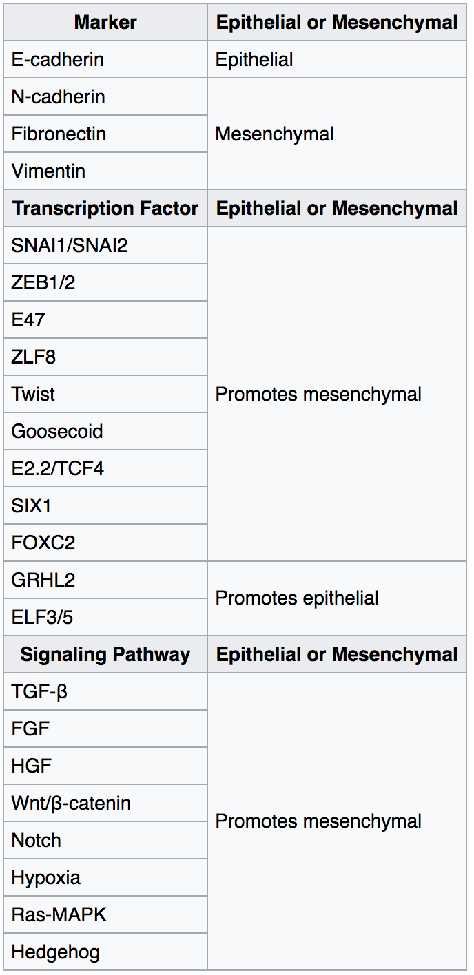 Chart comparing the inducers of epithelial to mesenchymal transition.